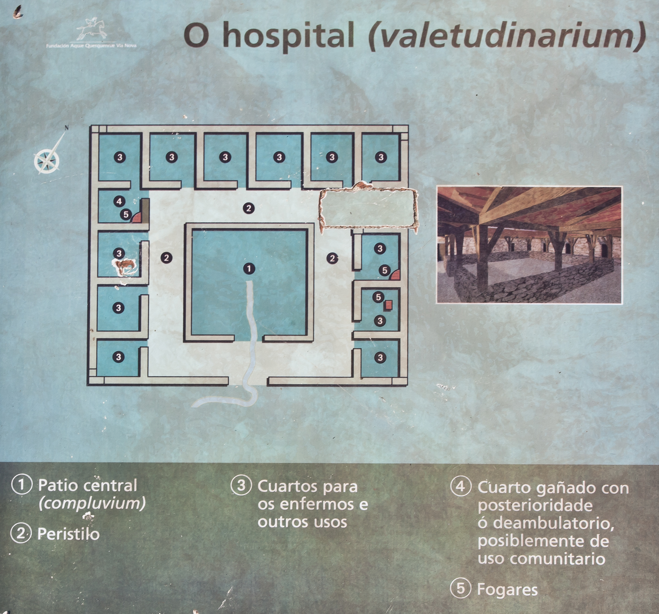 Aquis Querquennis, roman castra at Os Baños, Bande (Ourense, Galiza).